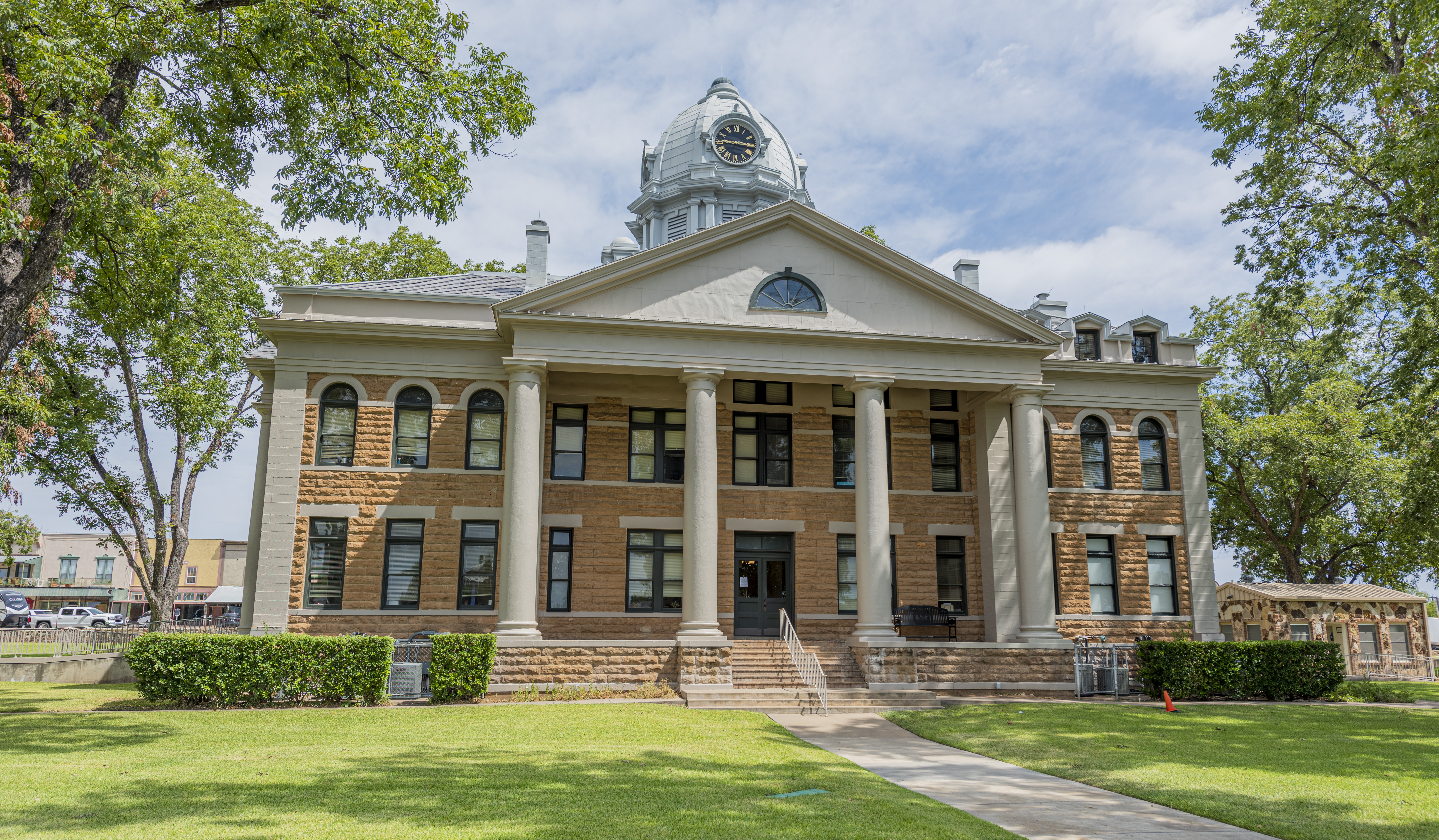 Photograph of the Mason County Courthouse in Mason, Texas. Image taken in August 2020.